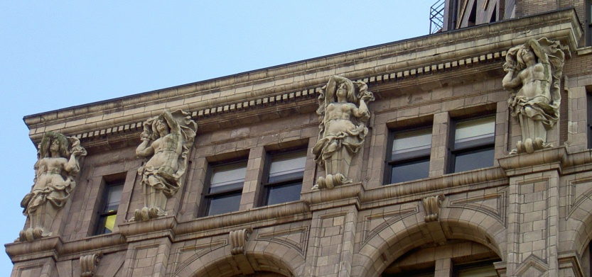 Detail of the muses and cornice on the Sun Tower in Vancouver. Photographed by Zhatt on June 28, 2005